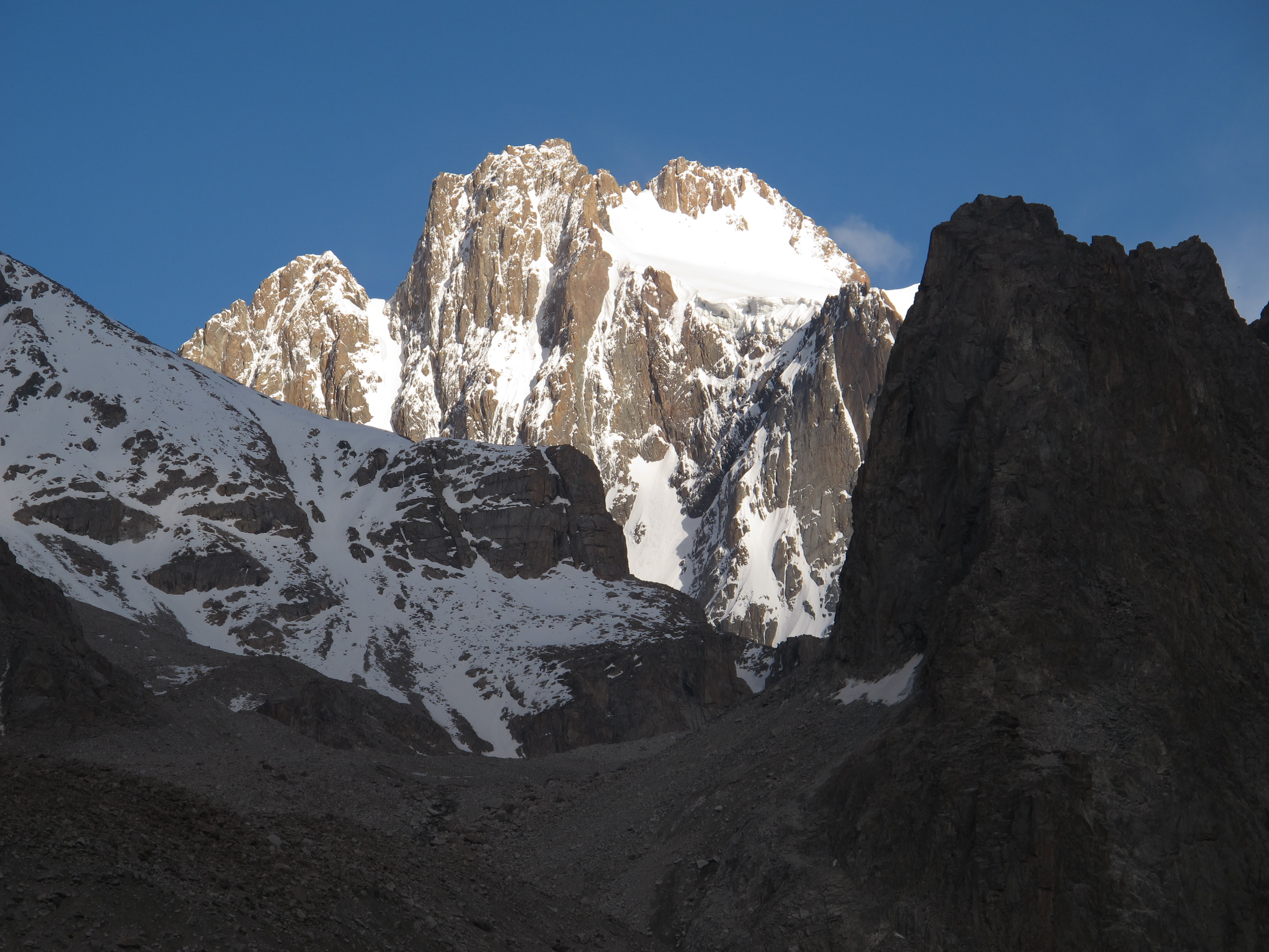 Korona (Crown) peak (4860 m) from Racek hut